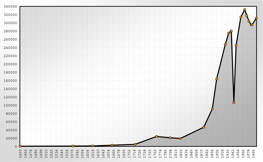 This image shows the population statistics of Mannheim (Germany).